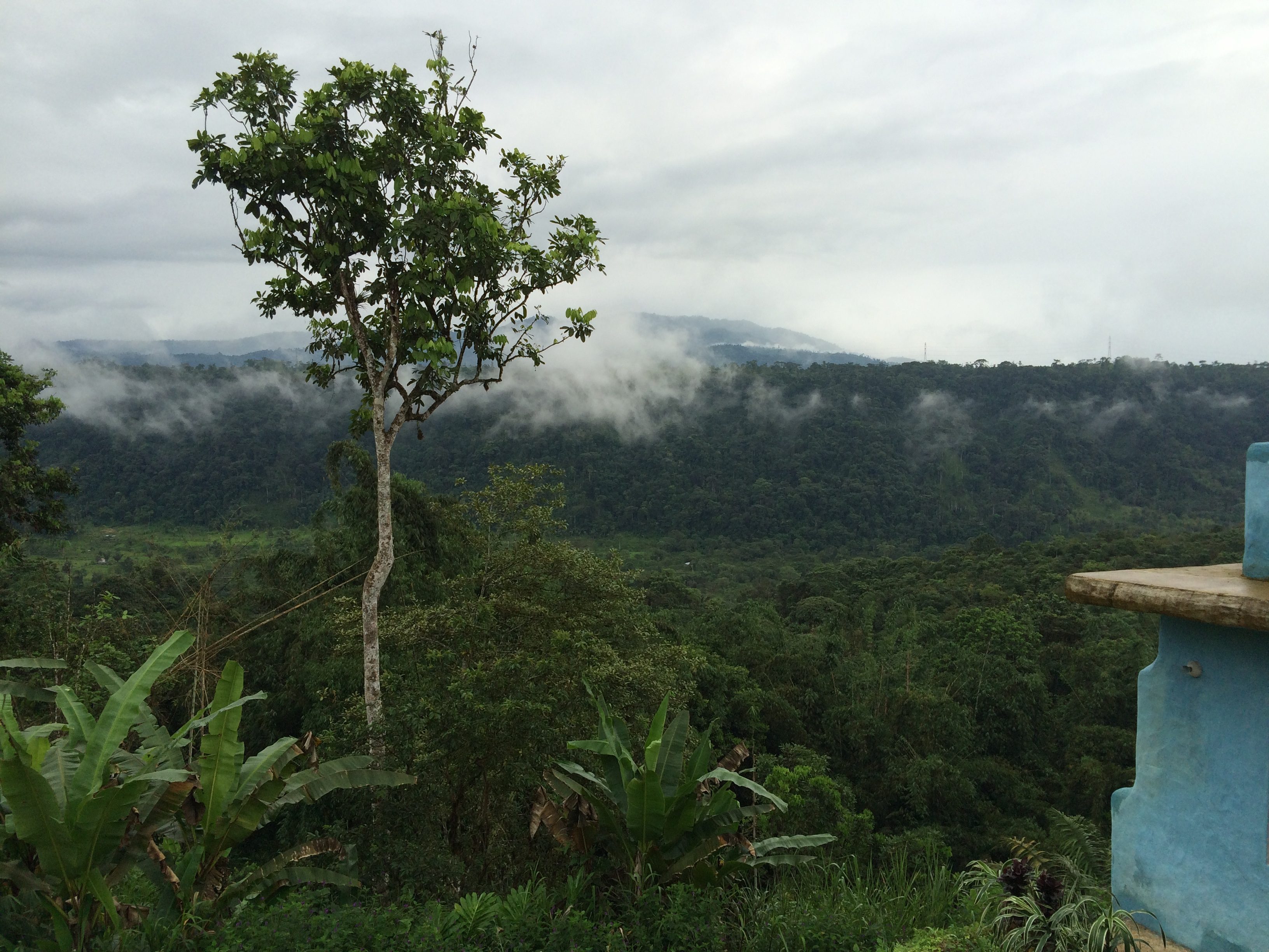 A view of San Miguel de los Bancos from the hostel "Charm" taken in January of 2016.